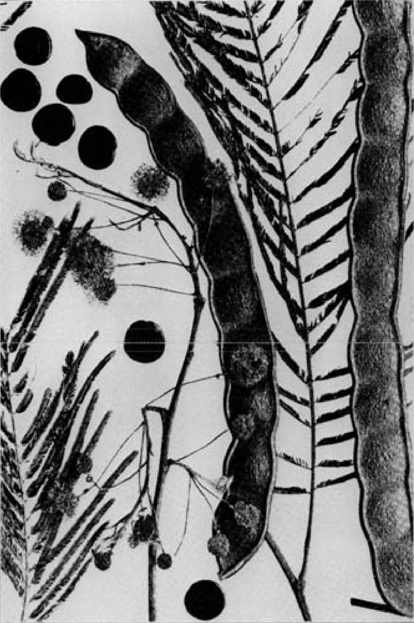 Anadenanthera peregrina Illustrated as Piptadenia peregrina in Safford in Journ. Wash. Acad. Sci. 6, no. 15 (1916) 548.